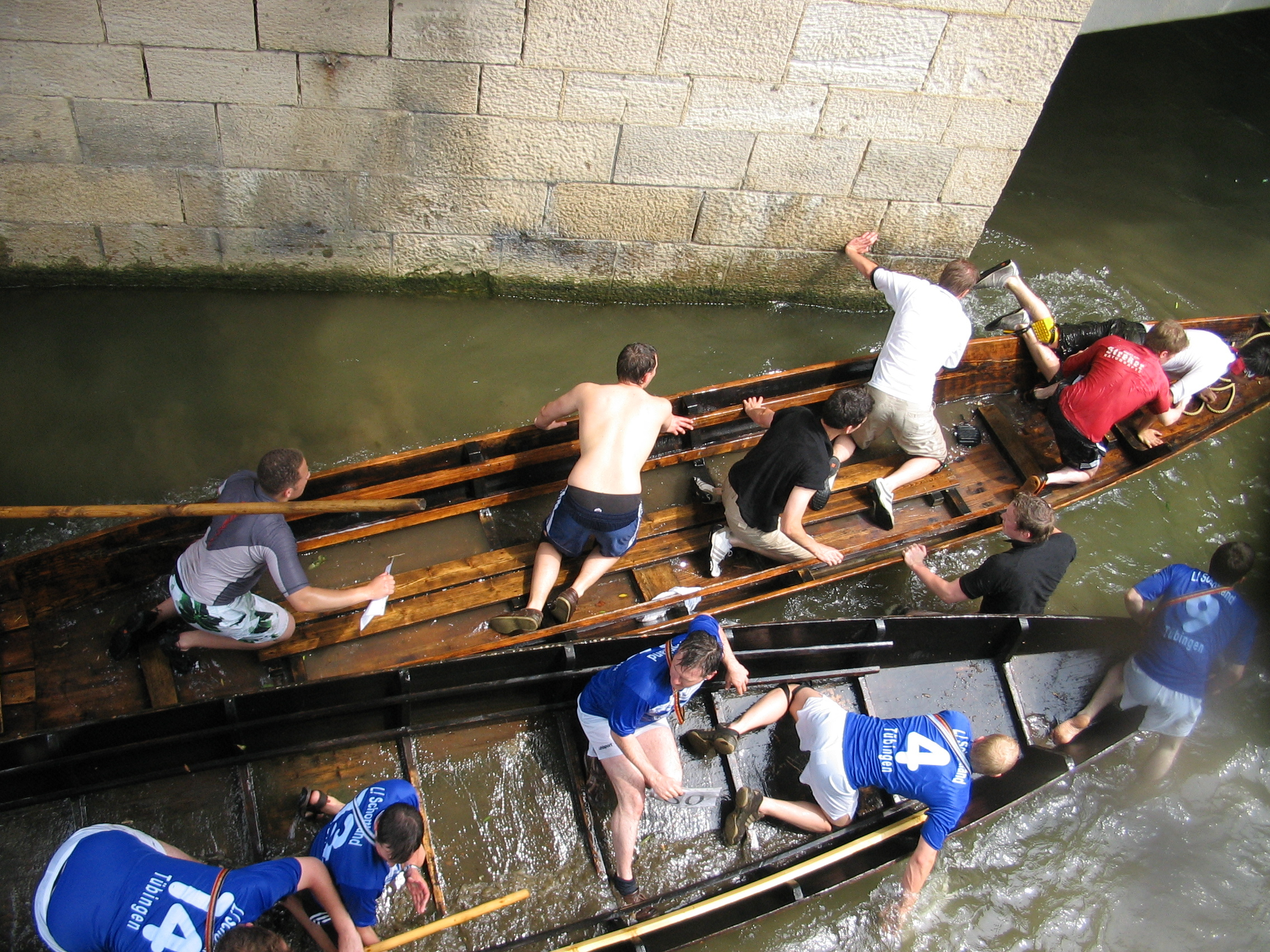 Tübingen